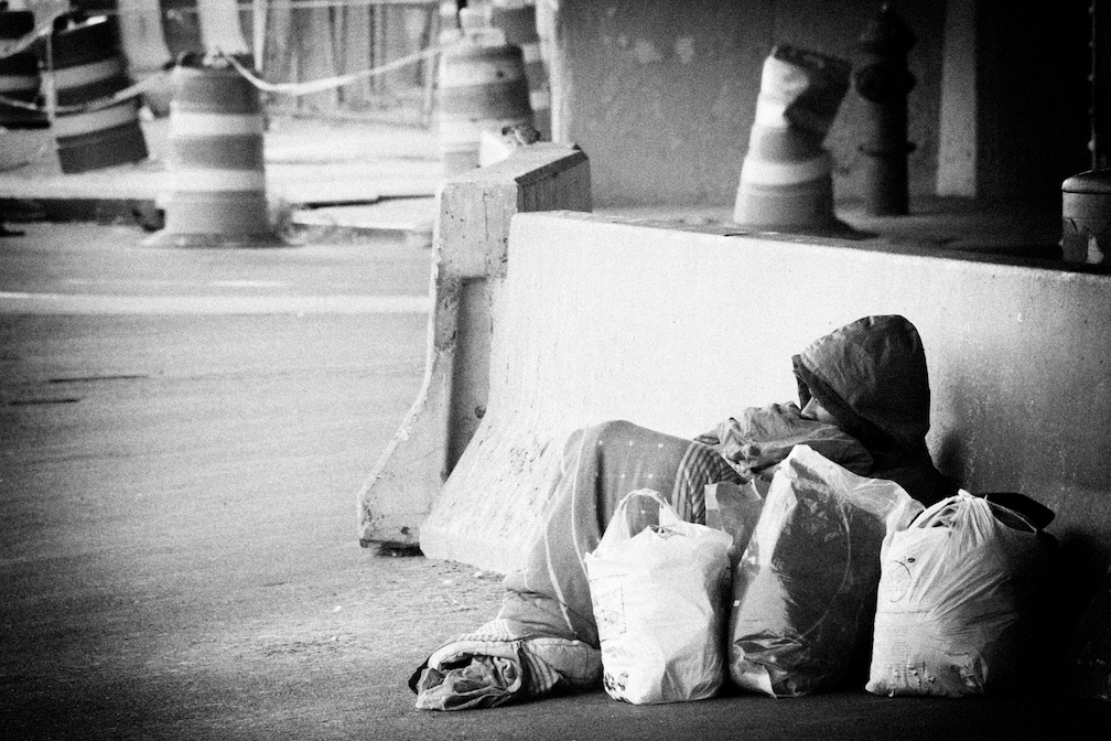 Homeless man in New York 2008, Credit Crises. On any given night in USA, anywhere from 700,000 to 2 million people are homeless, according to estimates of the National Law Center on Homelessness and Poverty.